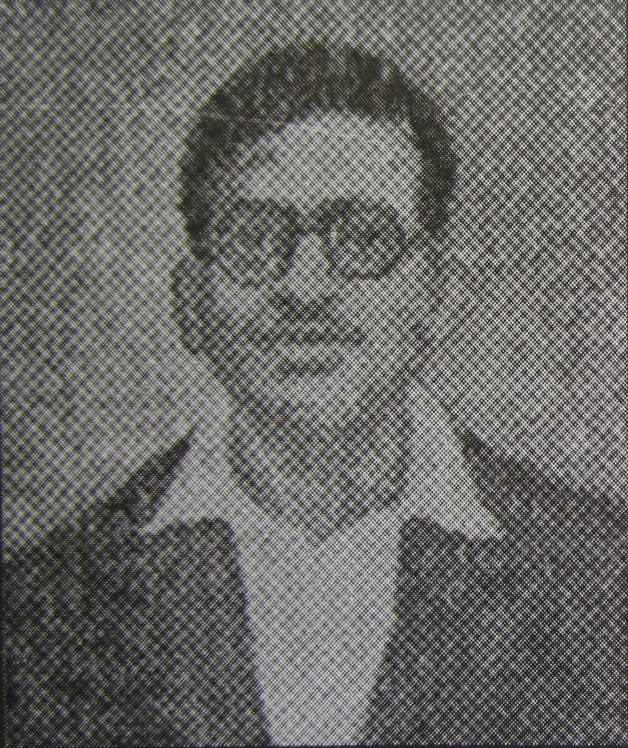 Panchanan Palit